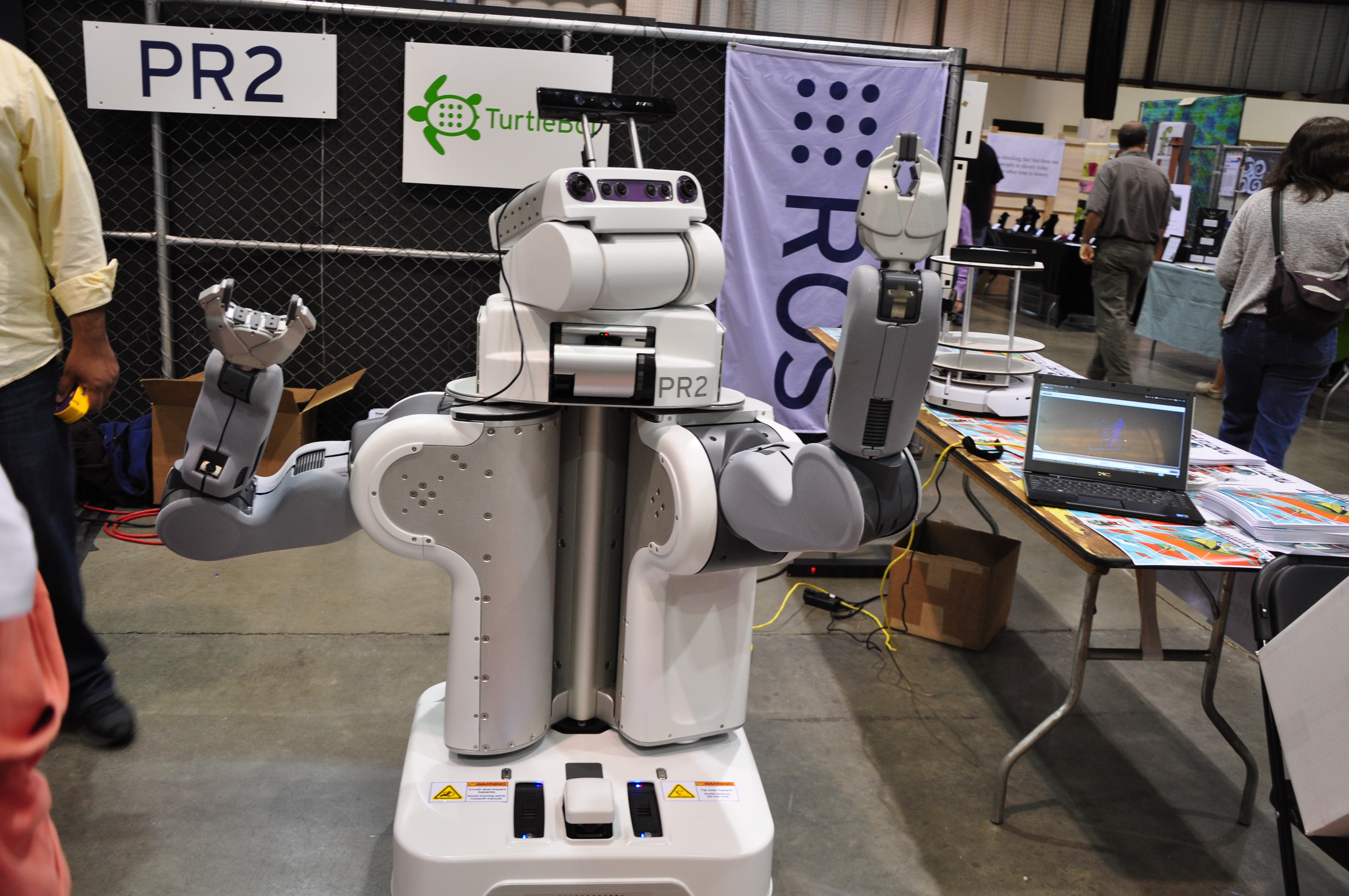 A PR2 robot by Willow Garage at Maker Faire 2011.